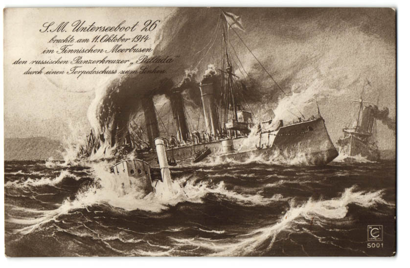 Photocopy of German Carte Postale (Open Letter) with lithography showing Russian Imperial Navy cruiser Pallada being torpedoed by Kaiserlichemarine U-boat U-26 on October 11th 1914 in Baltic.